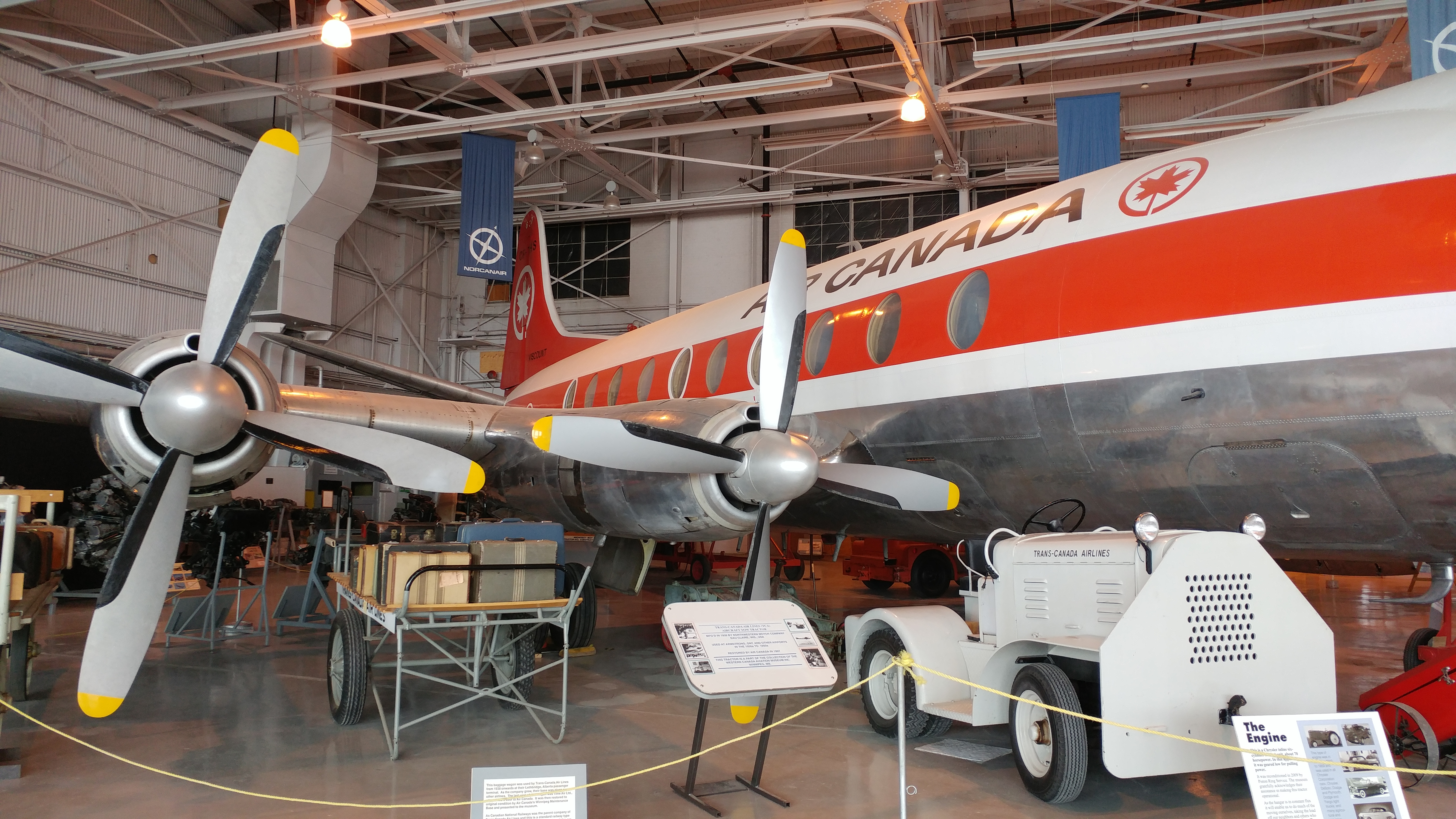 Exterior of a Vickers Viscount at the Royal Aviation Museum of Western Canada in Winnipeg, Manitoba.